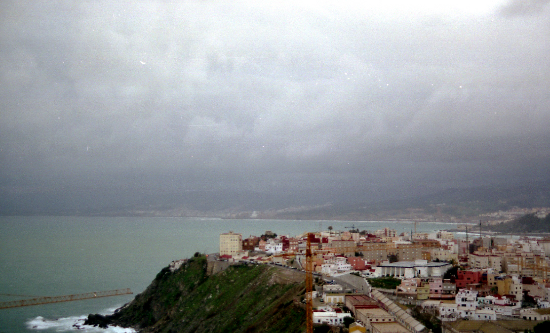 Taken from a hill overlooking the spanish city Ceuta.The Rich tourist town is contrasted by the poor maroccan village only 4km away.